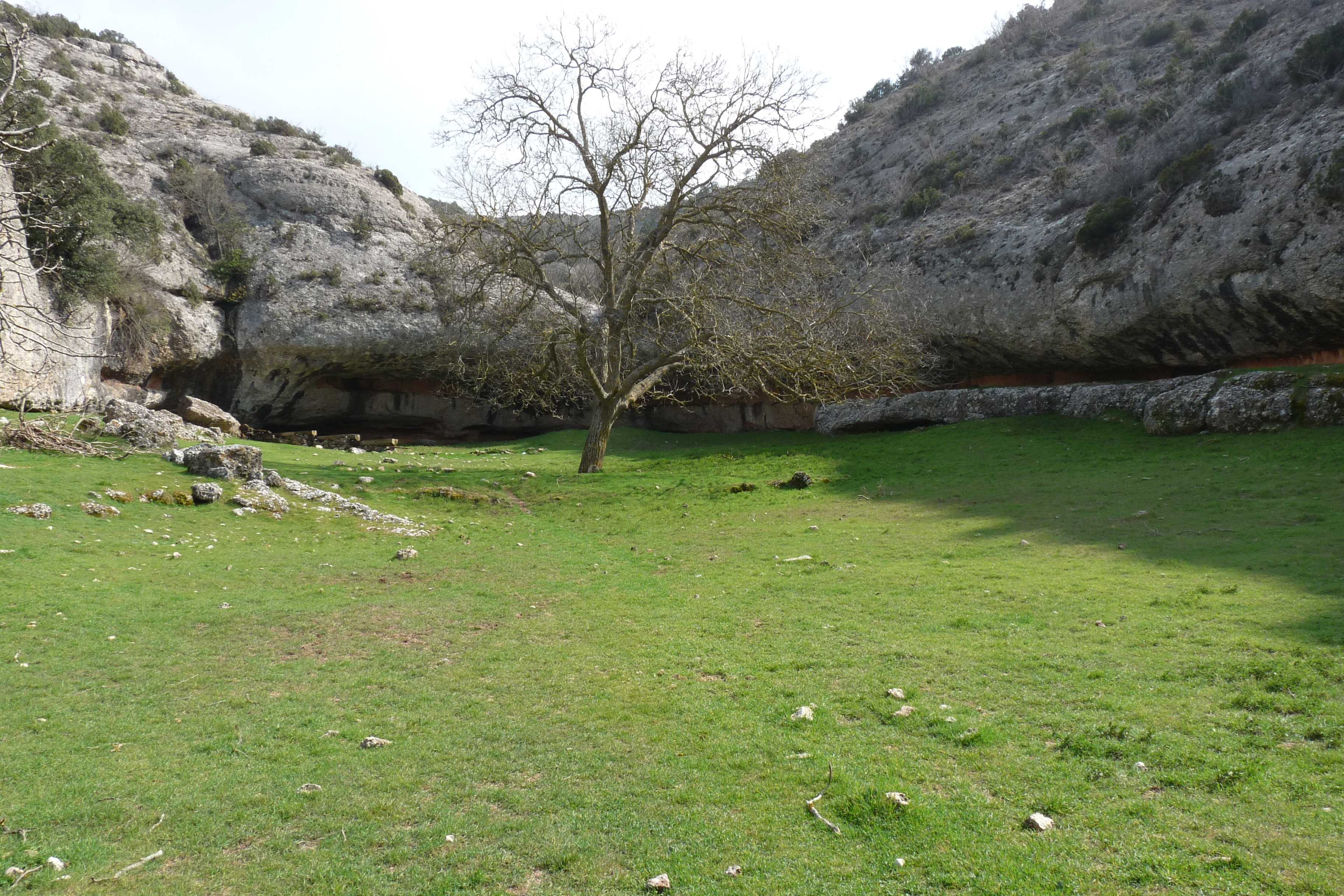 Clot del Cirer, in the ravine Falconera (mountain of Montsant)